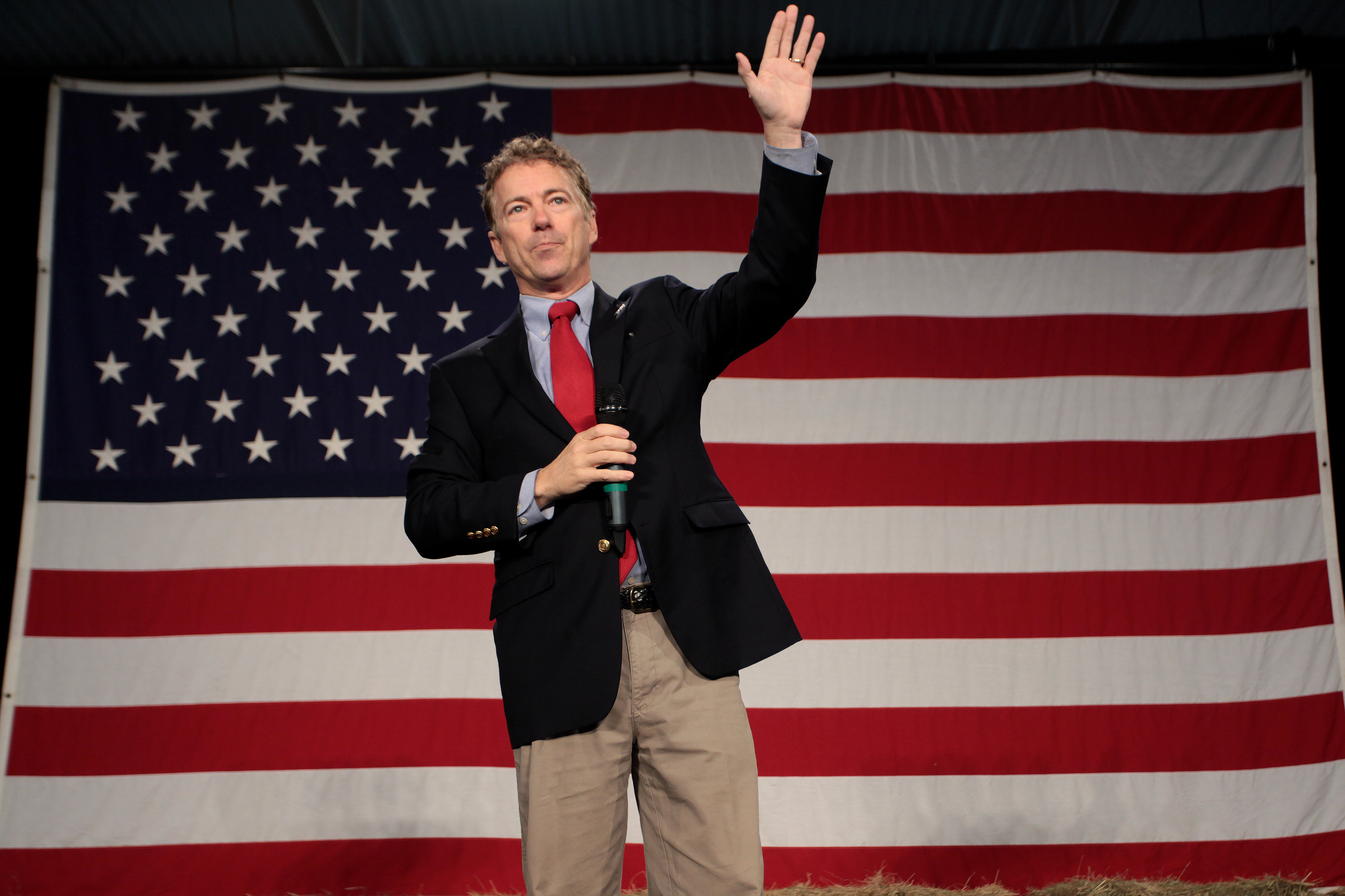 U.S. Senator Rand Paul speaking with attendees at the 2015 Iowa Growth & Opportunity Party at the Varied Industries Building at the Iowa State Fairgrounds in Des Moines, Iowa.